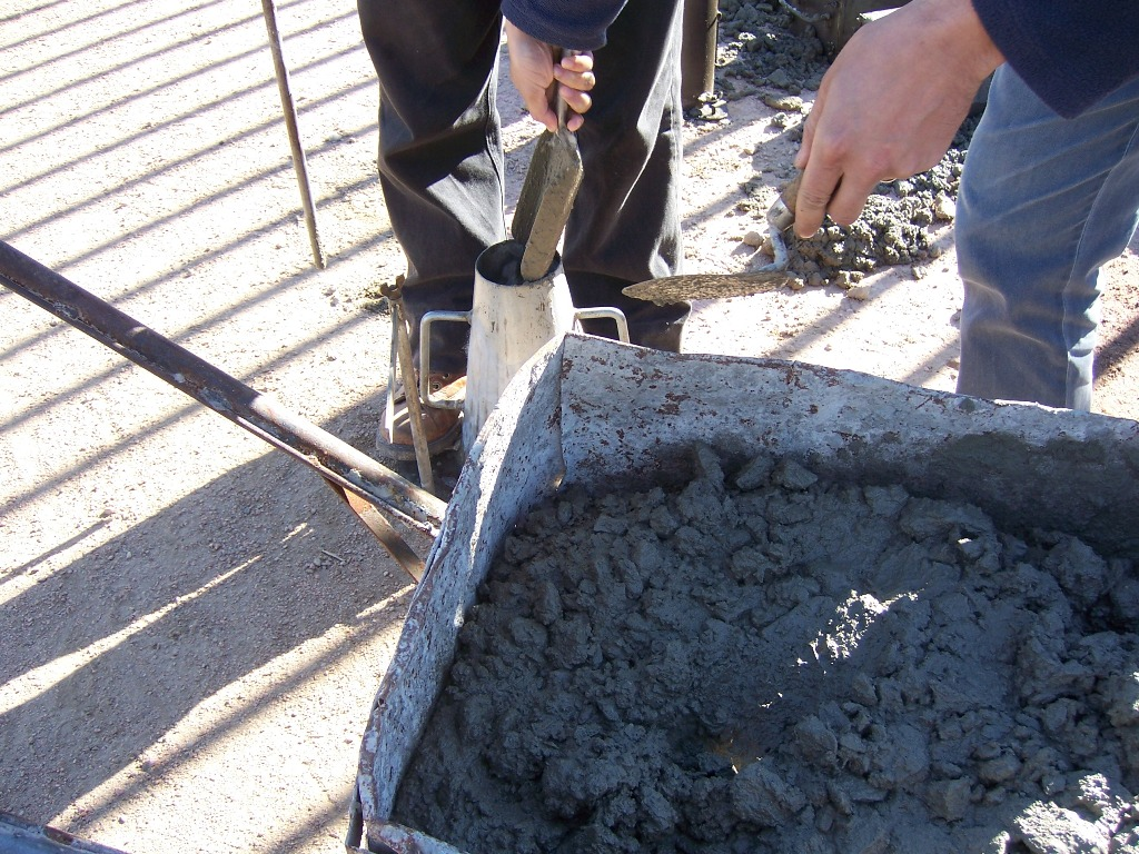 adding fresh concrete to an Abrams slump cone